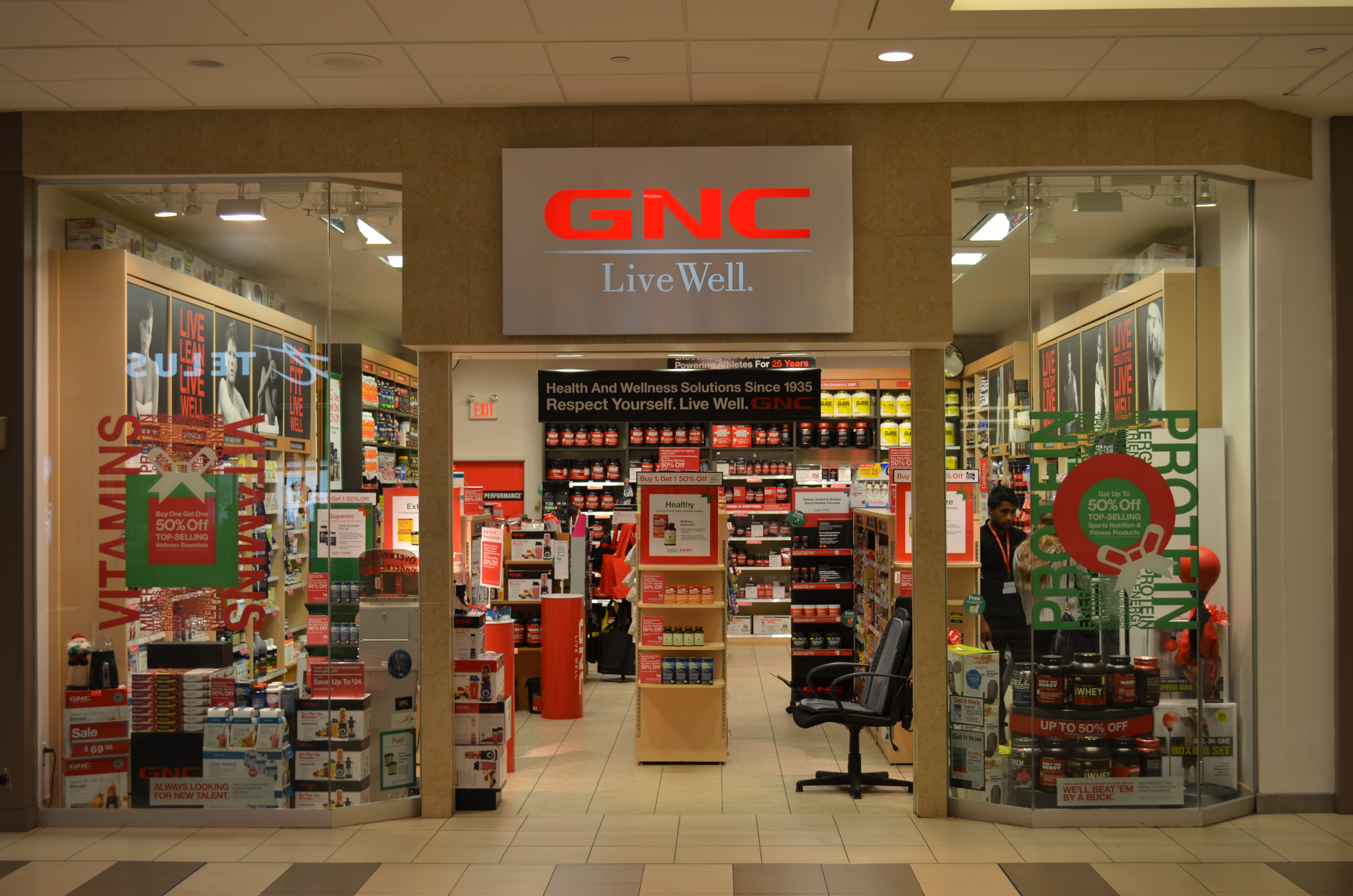 GNC at Promenade